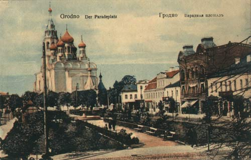 Church of Vitaut the Great, Hrodna; Фара Вітаўта ў Горадні